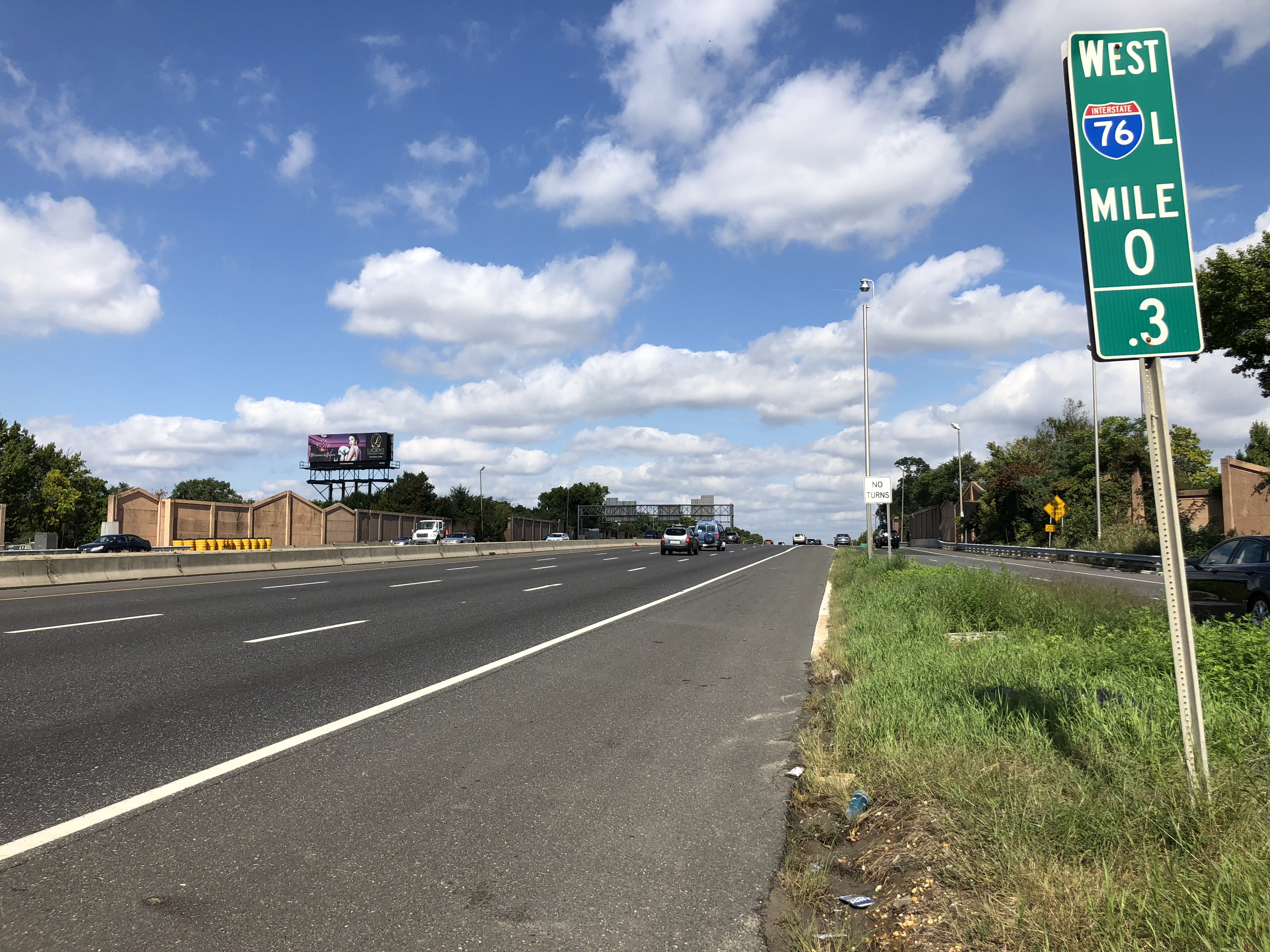 View west along Interstate 76 (North-South Freeway) at Interstate 295 (Camden Freeway) in Mount Ephraim, Camden County, New Jersey